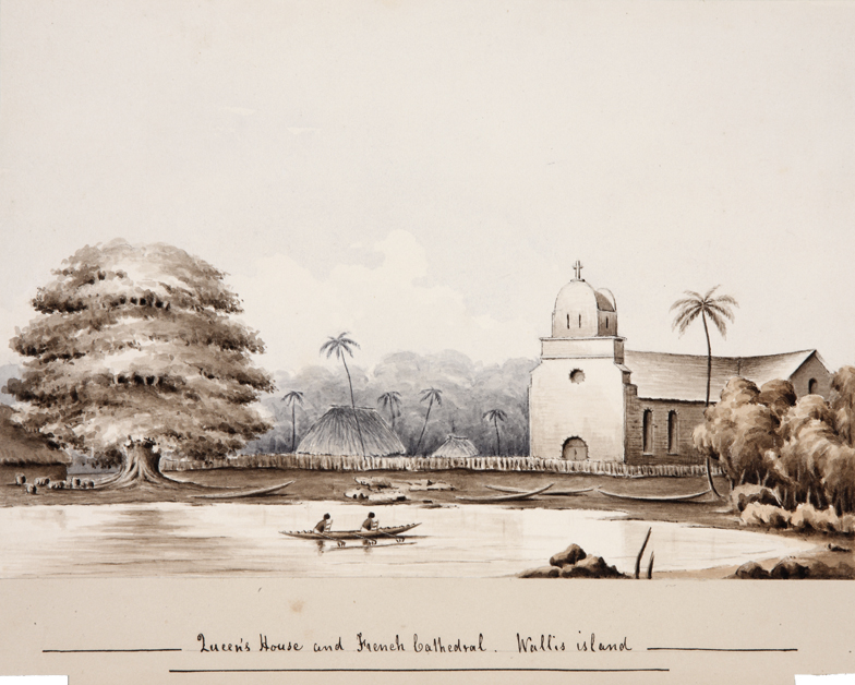 Description: Illustration from the medical and surgical journal of William Fasken, MD, surgeon aboard HMS Fawn. Painting shows the "Queen's House and French Cathedral, Wallis Island" an island group between Fiji and Samoa. The Cathedral still stands today. Date: 1862 Our Catalogue Reference: ADM 101/237/1 This image is from the collections of The National Archives. Feel free to share it within the spirit of the Commons. For high quality reproductions of any item from our collection please contact our image library.